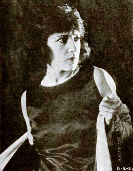 Still from the American drama film A Fallen Idol (1919) with Evelyn Nesbit, on page 1387 of the May 31, 1919 Moving Picture World.